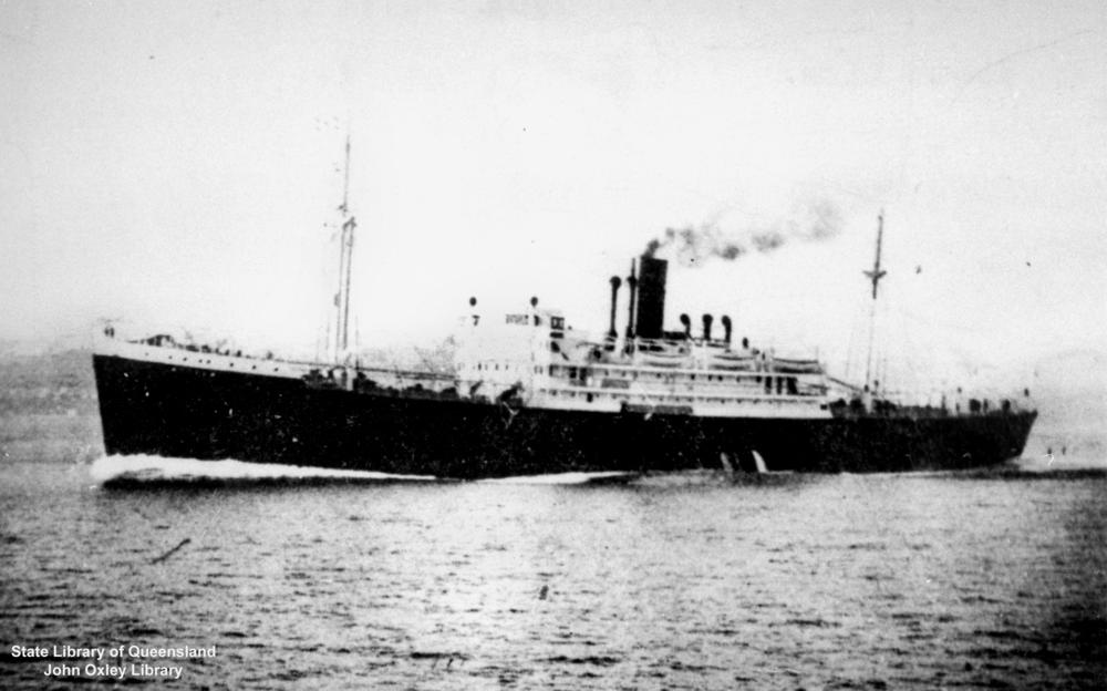 The cargo and passenger liner SS Anselm, 5,954 gross tons, of the Booth Steamship Company. Wm Denny & Bros of Dumbarton, Scotland built her in 1935. She was converted into a troop ship in 1940 and sunk on 5 July 1941 in the Atlantic by a torpedo fired by U-96